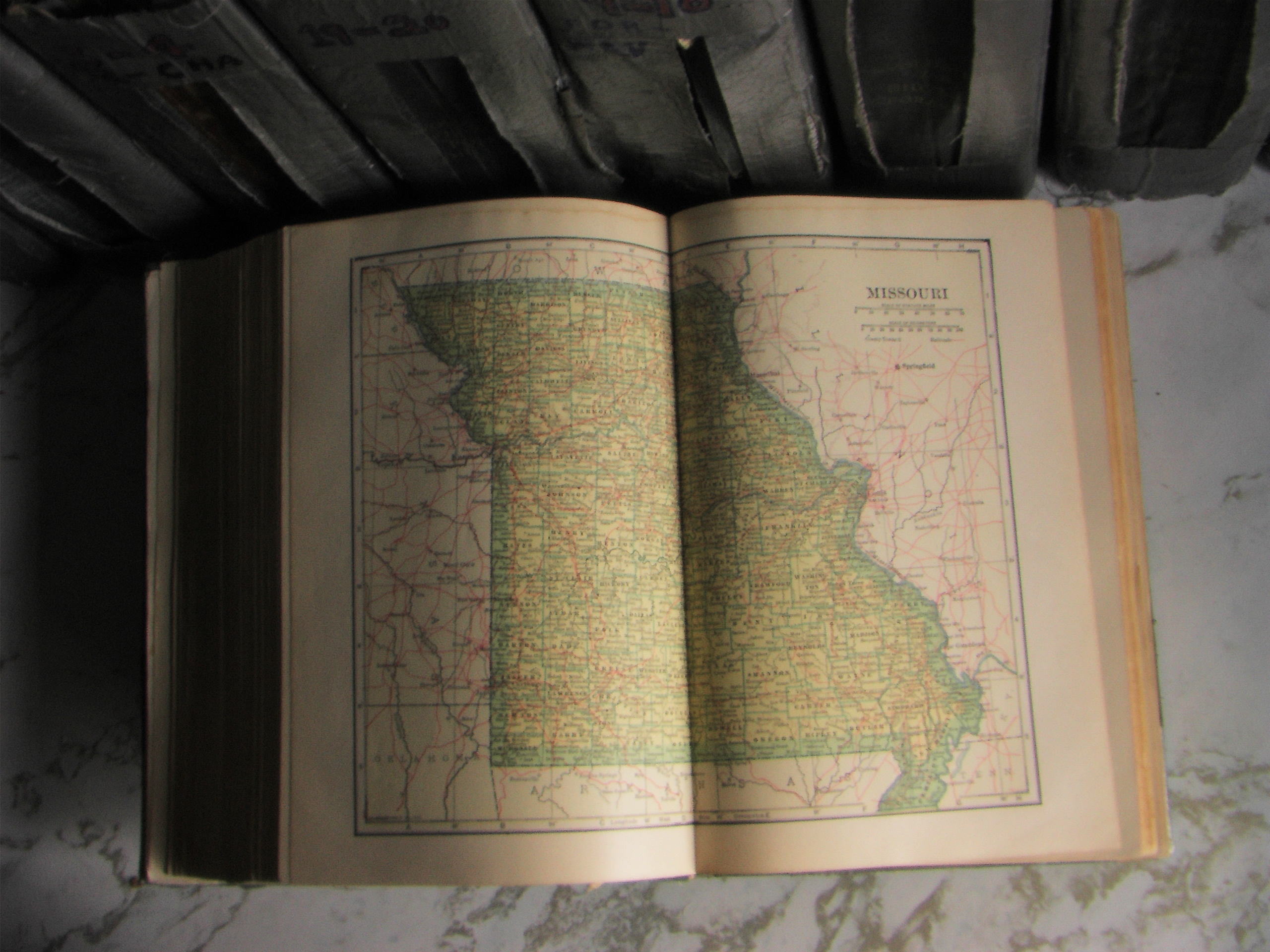 Velocicaptor The photograph is of a page in New International Encyclopedia